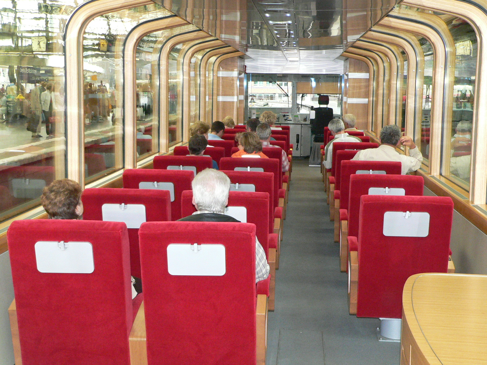 type 488 of the Berlin S-Bahn (panorama train)